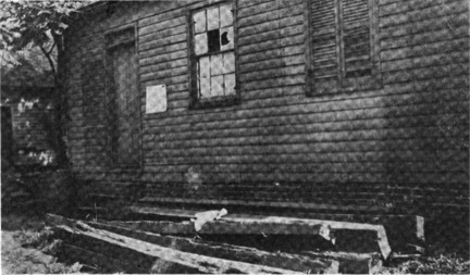 White clothing ,asking the home as "white-occupied"